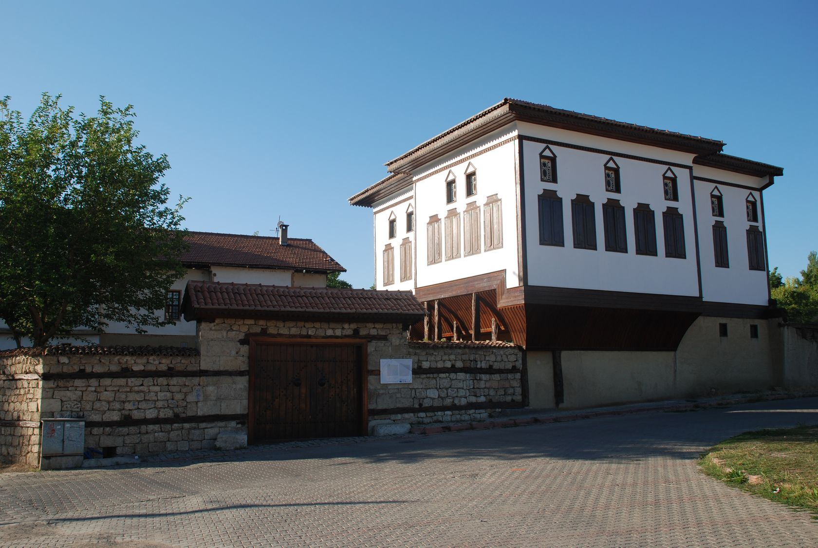 Divriği, Sivas province, osman house A’yan Ağa Konağı